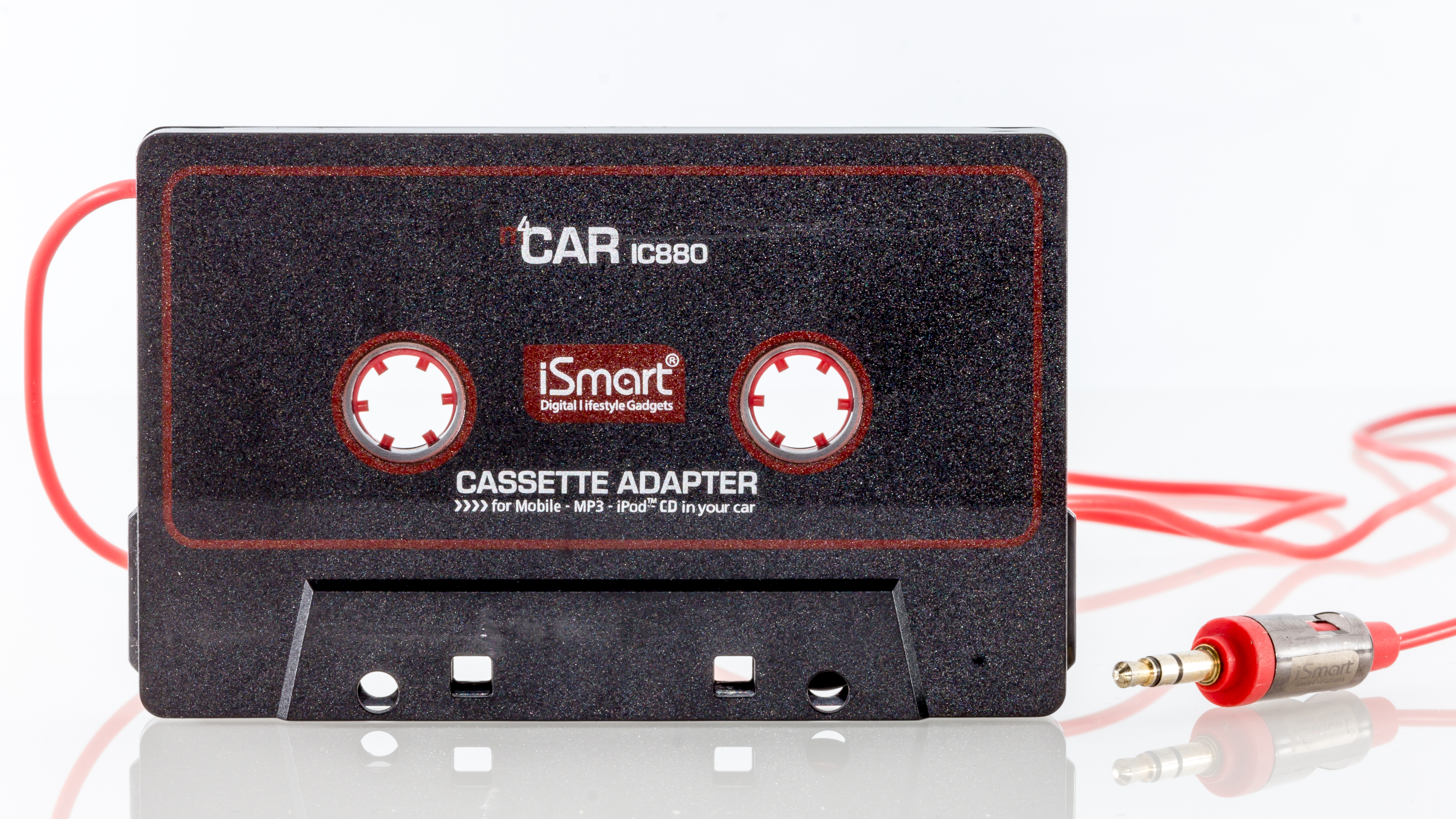 Cassette adapter iSmart Car IC880